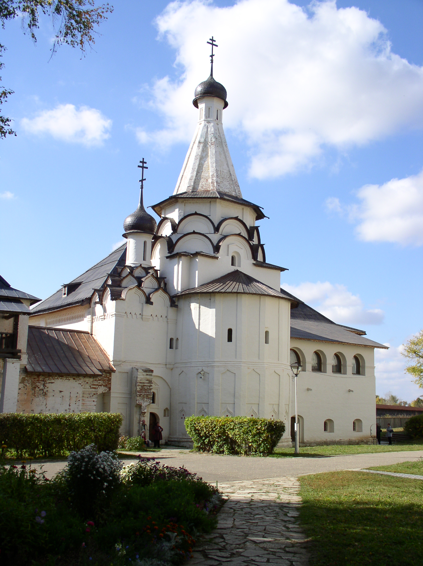 Assumption Church. Saint Euthymius monastery. Suzdal, Russia.